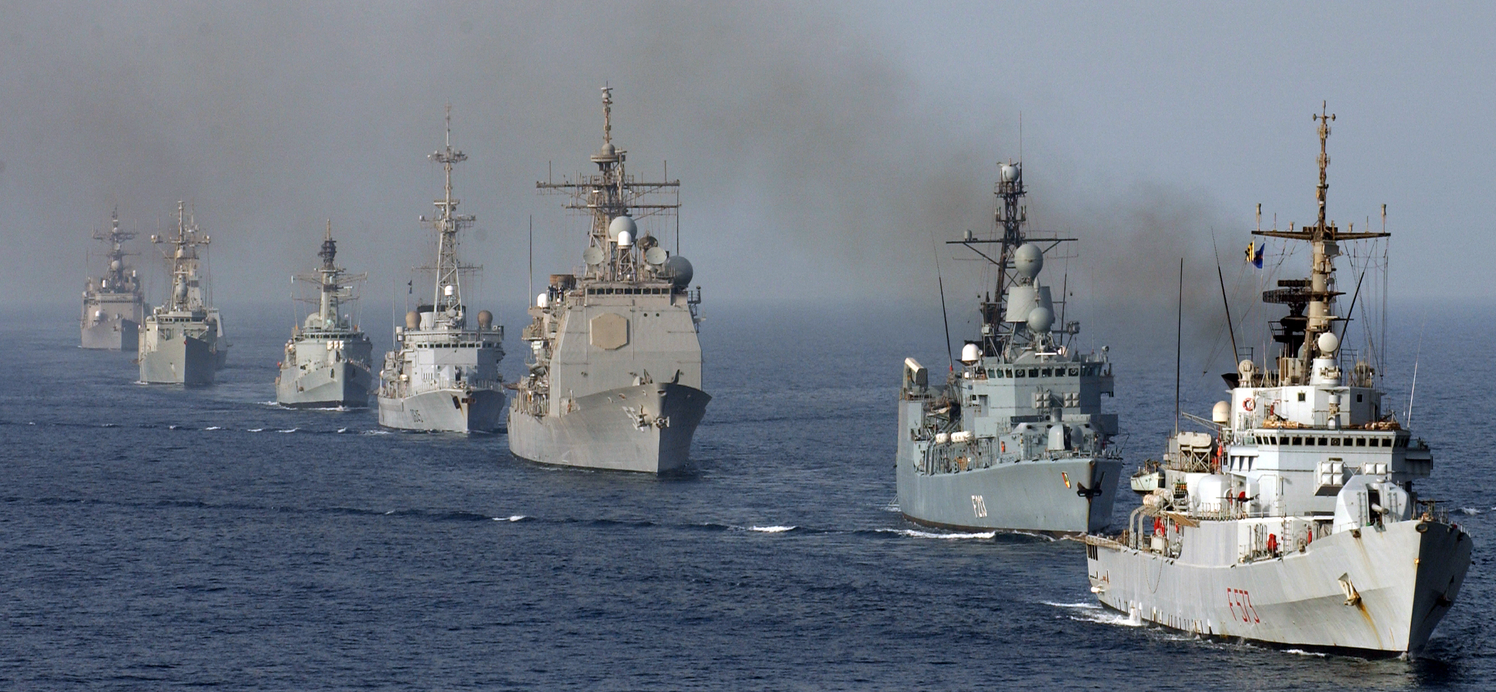 Ships assigned to Combined Task Force One Five Zero (CTF-150) assemble in a formation for a photo exercise. The multinational Combined Task Force One Five Zero (CTF-150) was established to monitor, inspect, board, and stop suspect shipping to pursue the war on terrorism and includes operations currently taking place in the North Arabia Sea to support Operation Iraqi Freedom. Countries contributing to CTF-150 currently include Australia, Canada, France, Germany, Italy, Pakistan, New Zealand, Spain, the United Kingdom and the United States. From front backwards; Italian Navy Maestrale-class frigate Scirocco, German Navy Bremen-class frigate Augsburg, US Navy Ticonderoga-class cruiser USS Leyte Gulf, French frigate La Motte-Picquet (Georges Leygues-class frigate), A Royal Navy Type 22 Frigate, (unknown), (unknown).